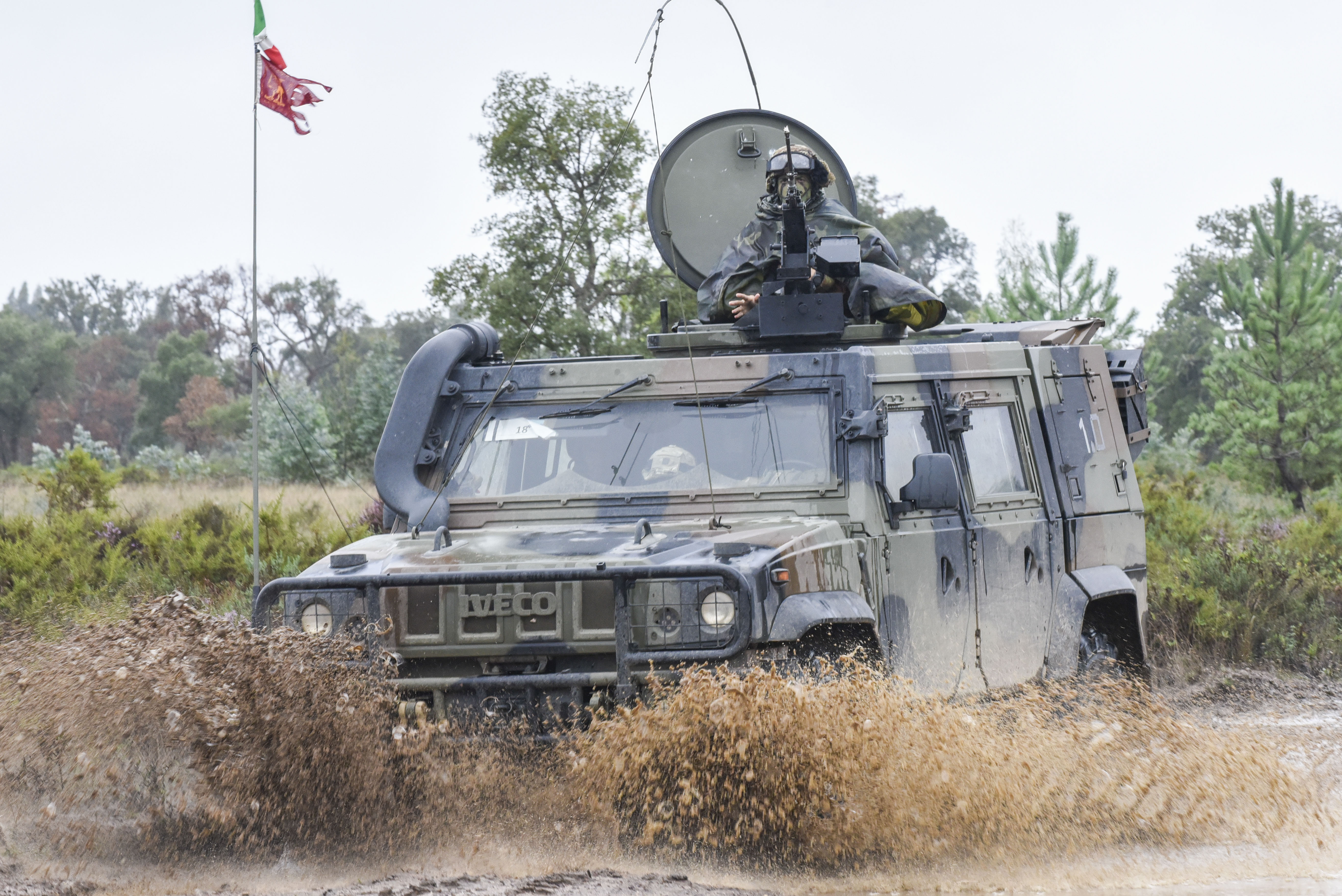 Italian Lagunari reconnaissance unit in a light vehicule advances in Santa-Margarida, Portugal, during JOINTEX 15 as part of NATO’s exercise TRIDENT JUNCTURE 15 on November 4, 2015 Photo: Sgt Sebastien Frechette, PA Technician VL06-2015-387-37